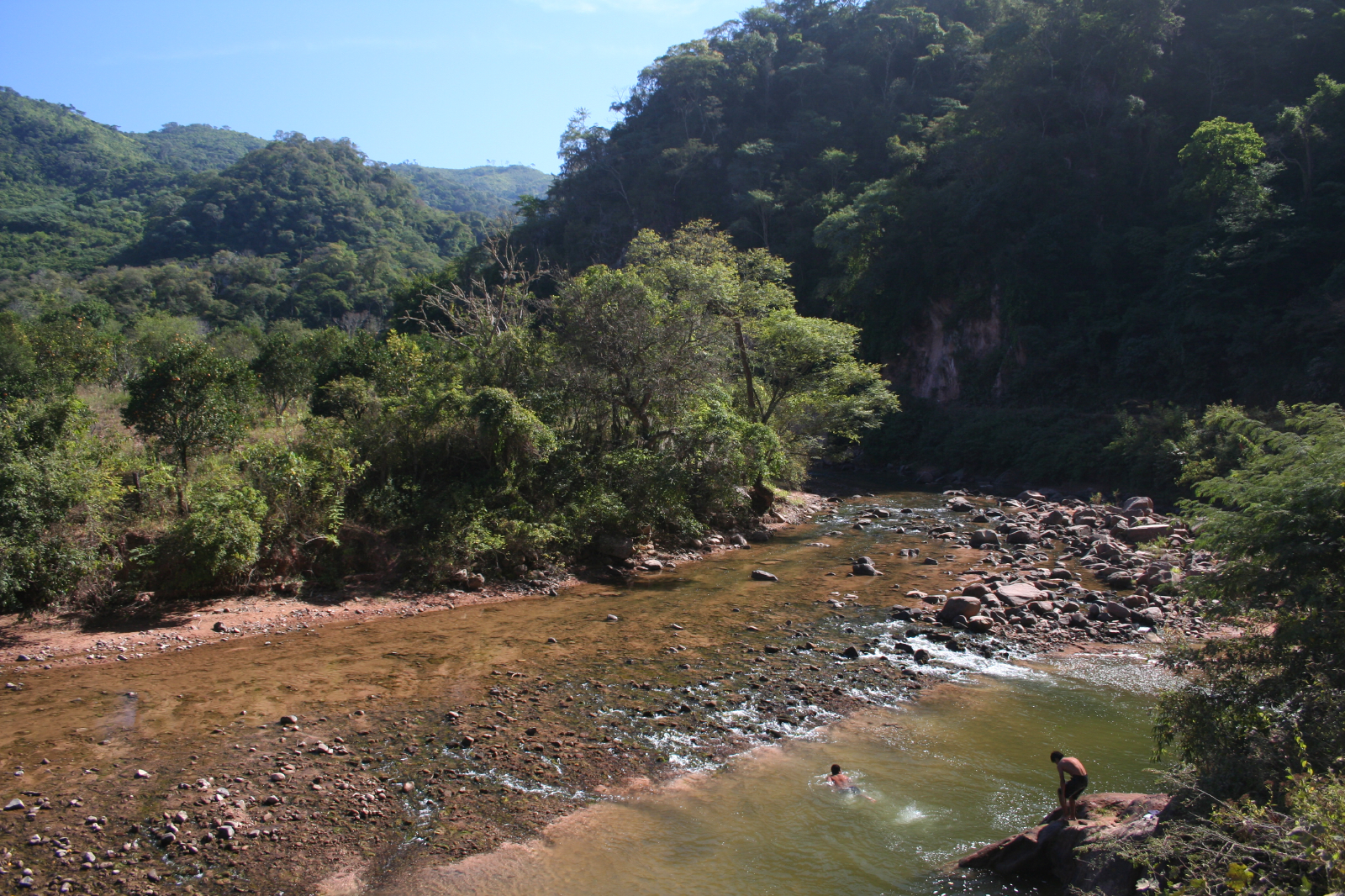 A steep canyon outside Monteagudo, Bolivia. Floristic diversity here is through the roof.